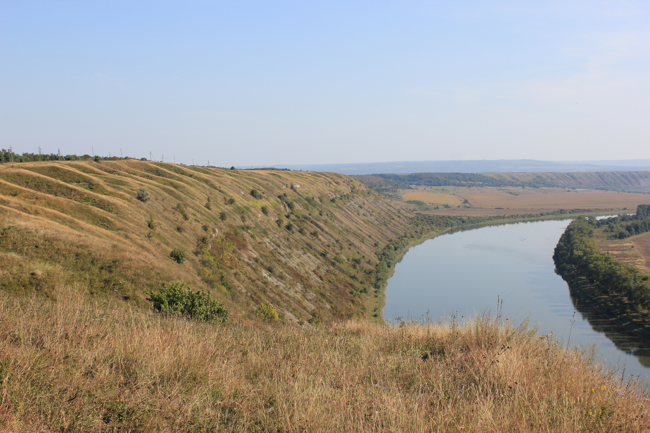 Dniester canyon, Ternopil oblast, Ukraine.